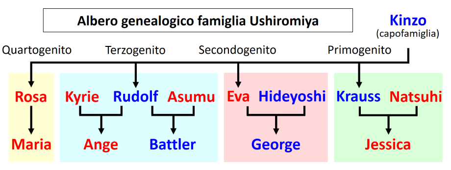 Family pedigree of Ushiromiya family (Umineko When They Cry) - Italian version